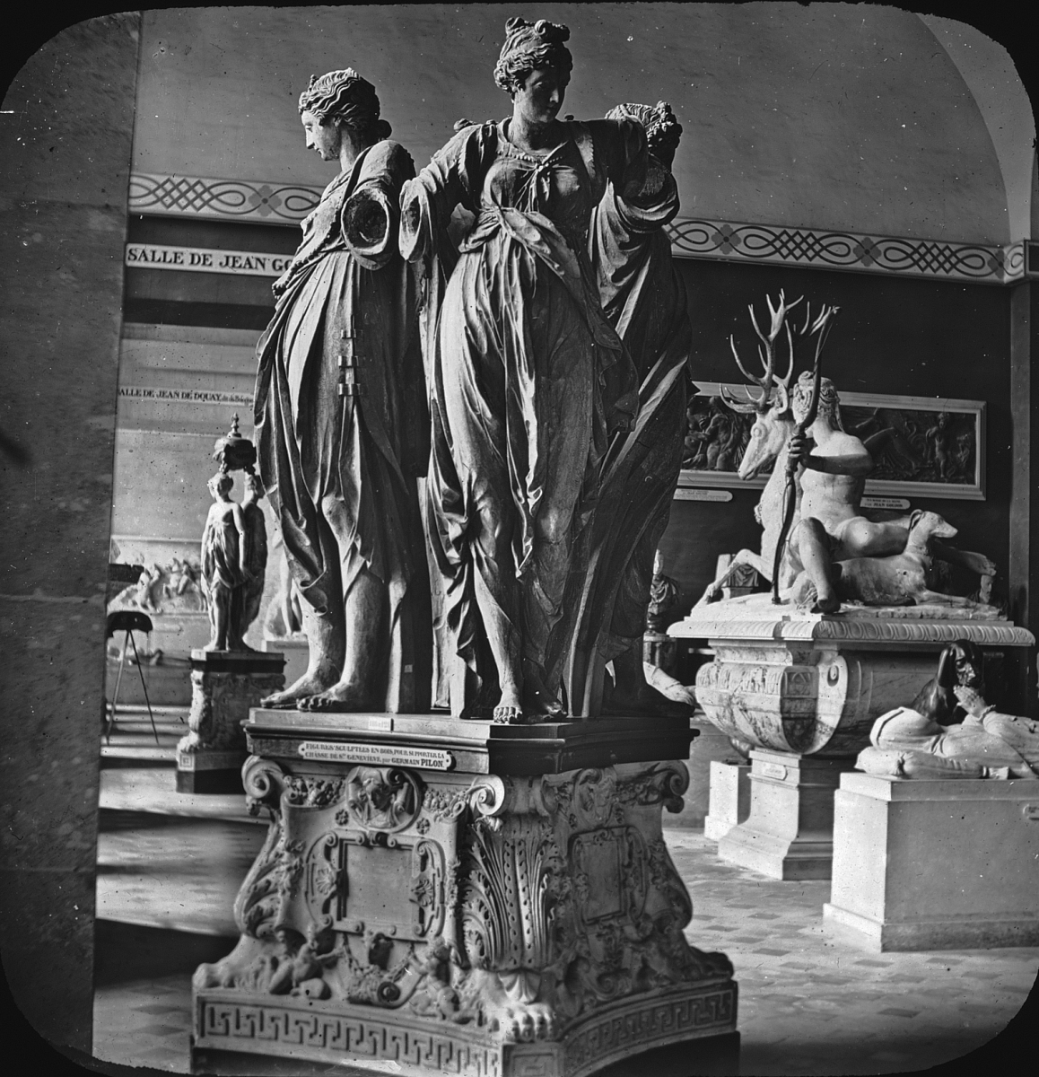 Four cardinal virtues; Louvre, Paris. Louvre, Paris, France. Four cardinal virtues; Louvre, Paris. Brooklyn Museum Archives, Goodyear Archival Collection (S03_06_01_020 image 2534).